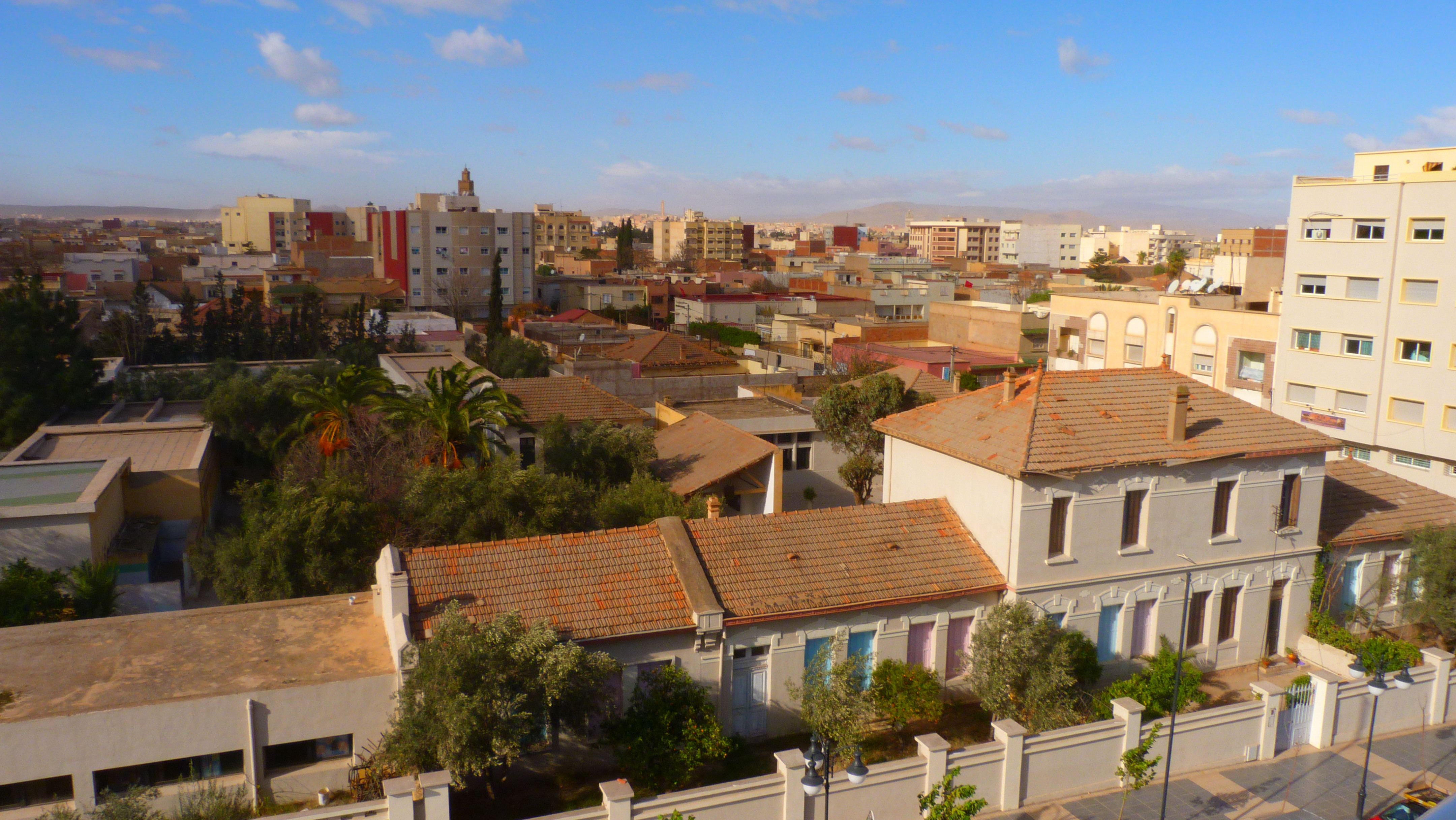 View of Oujda in Morocco Oriental region from the Al Mahreb Al Arabi private hospital.